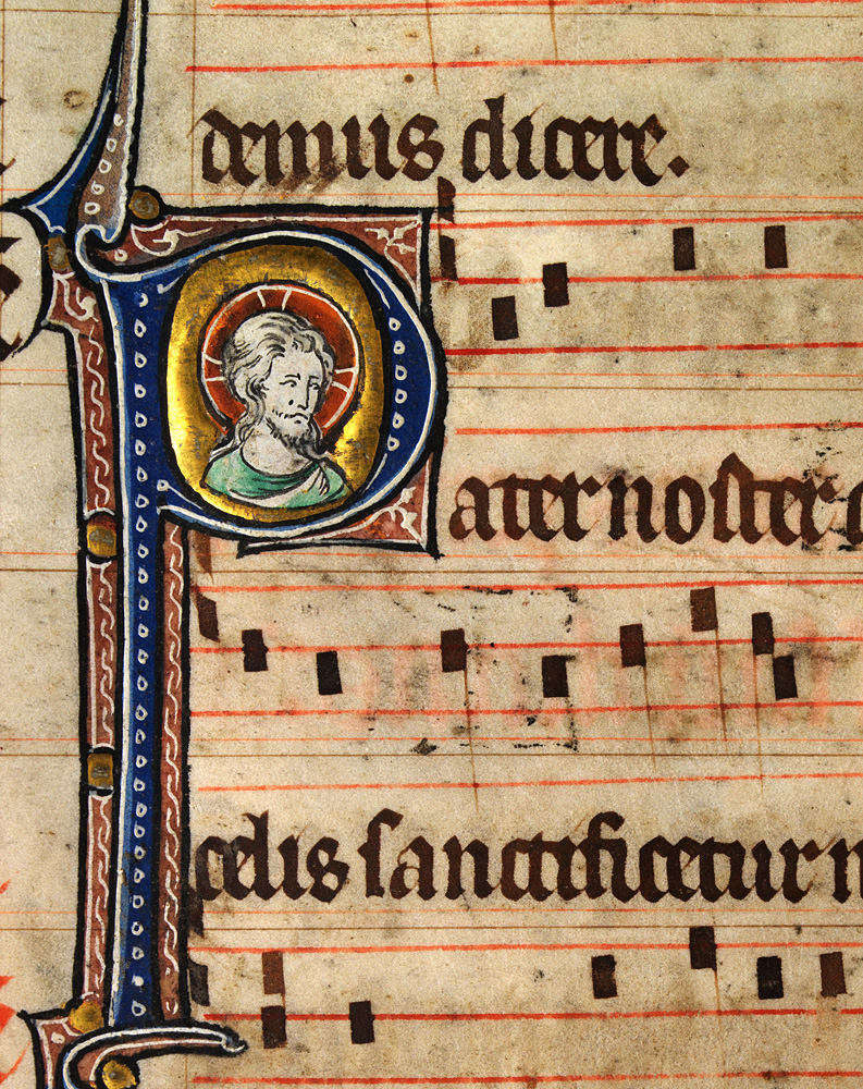 This beautiful Missal made from parchment originates from East Anglia. It is considered a very important manuscript as it is one of the earliest examples of a Missal of an English source. Sarum Missals were books produced by the Church during the Middle Ages for celebrating Mass throughout the year